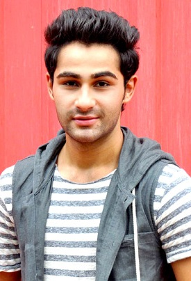 Armaan Jain at a promotional event for Lekar Hum Deewana Dil